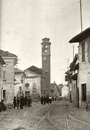 Ottobiano, tramway junction